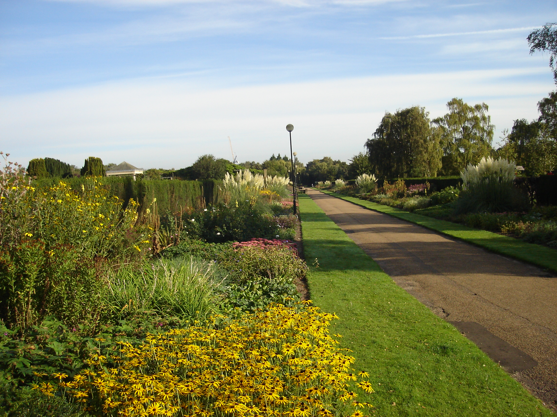 The herbaceous border at Waterloo Park, Norwich is among the largest in the United Kingdom